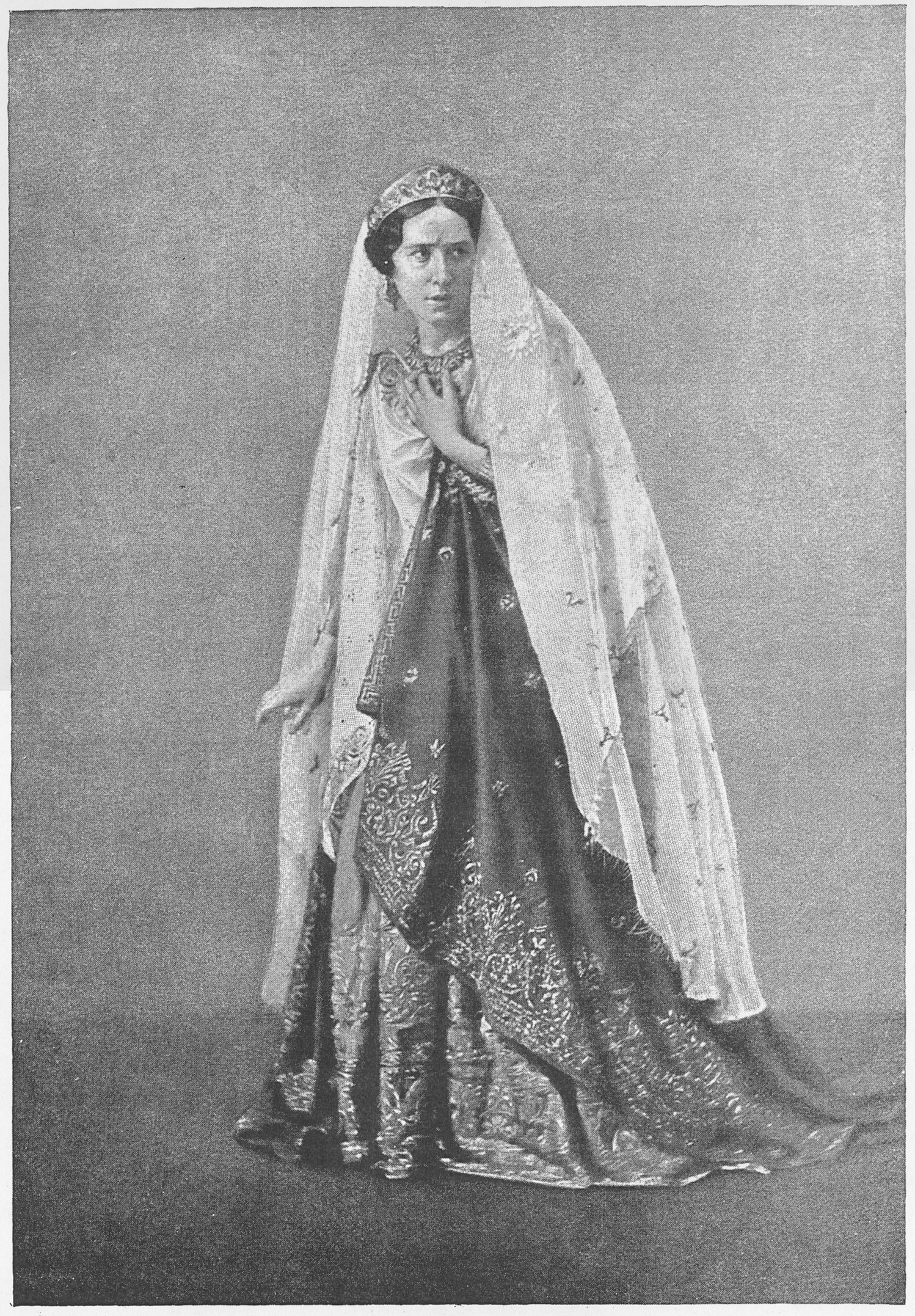 A full-length portrait of the French actress Rachel in the title role of Racine's play Phèdre.